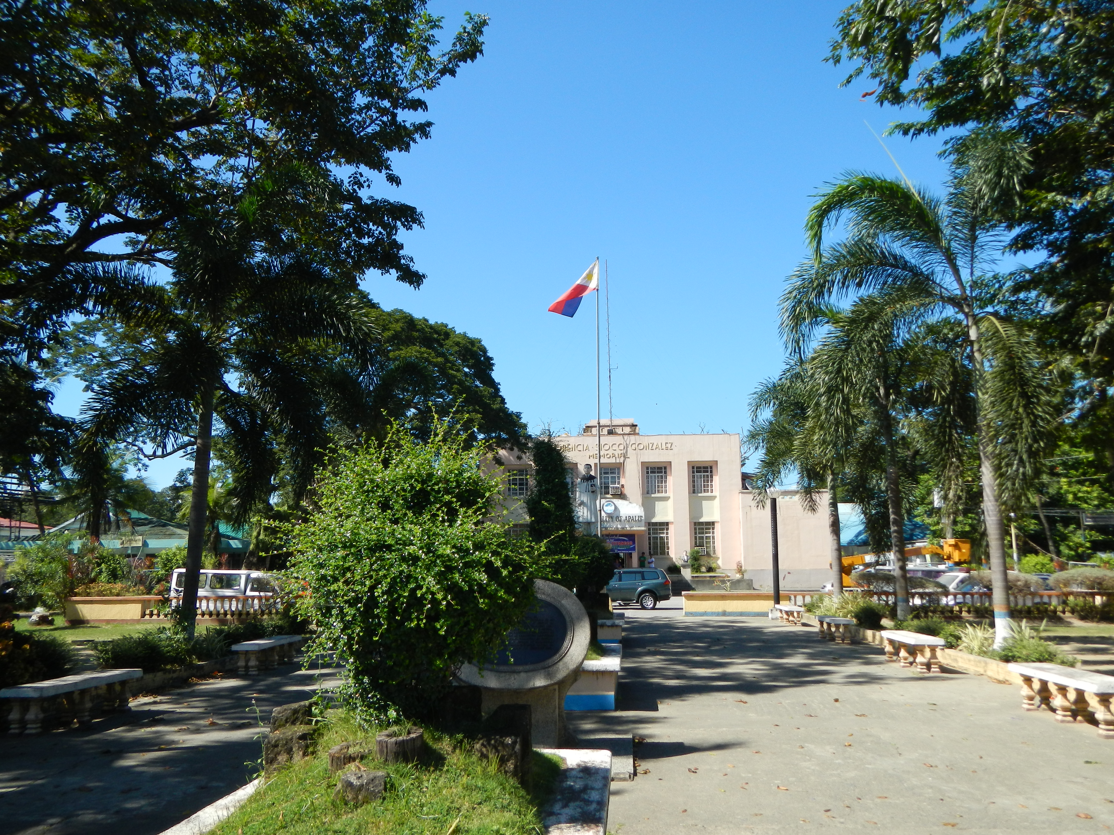 Apalit, Pampanga[1]